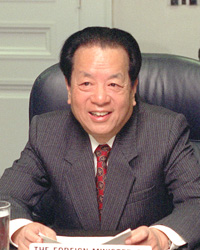 Qian Qichen (钱其琛), Foreign minister of the People's Republic of China